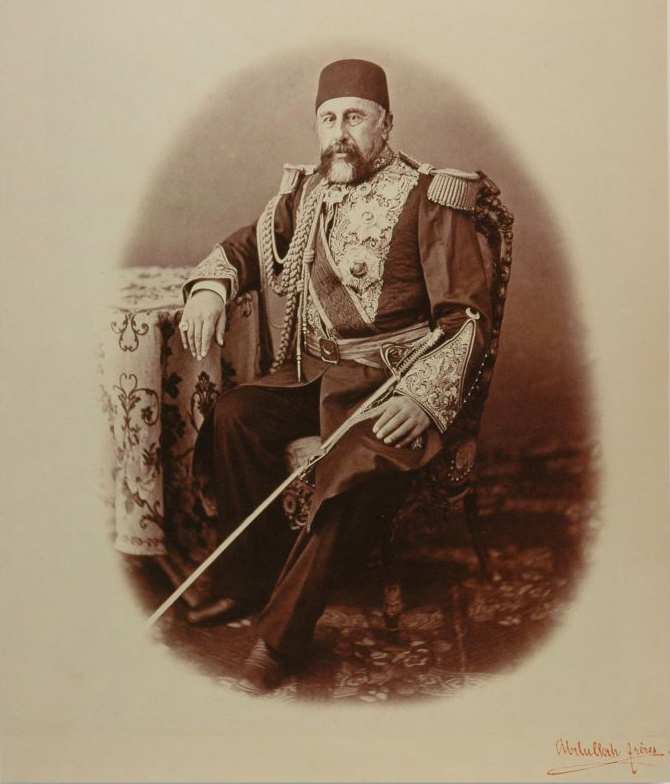 Mehmed Fuad Pasha, Ottoman statesman.